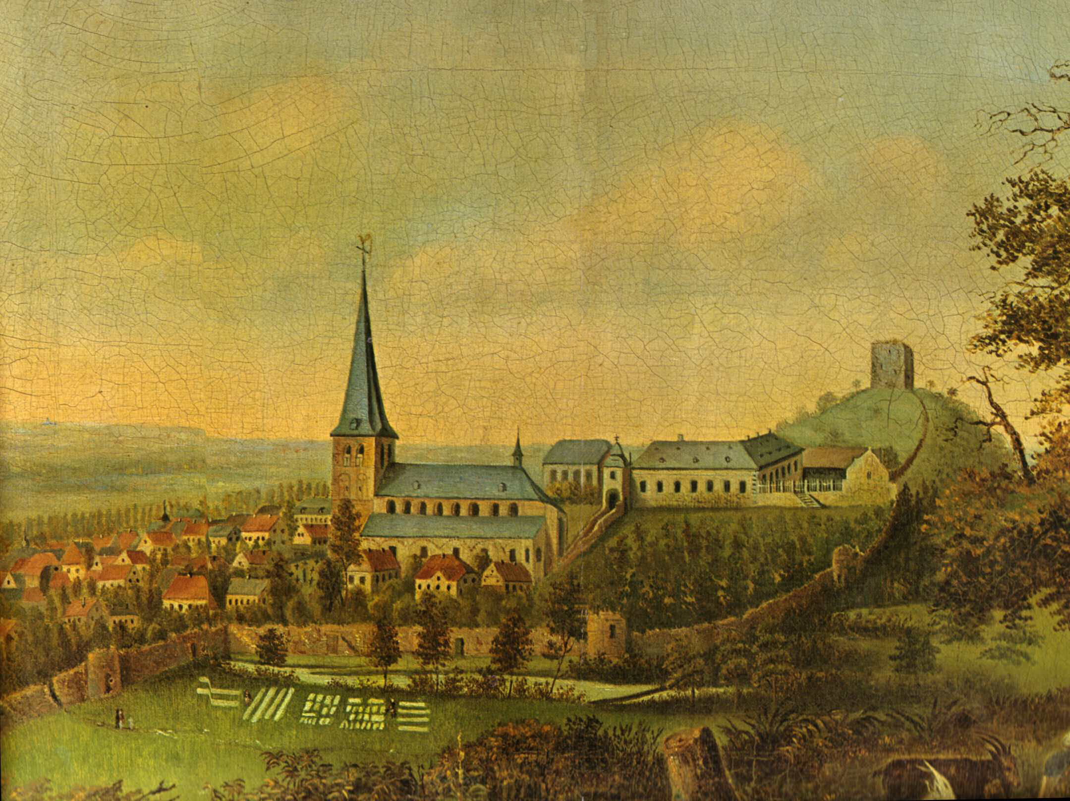 Stadt Wassenberg, early 19th century, unknown painter